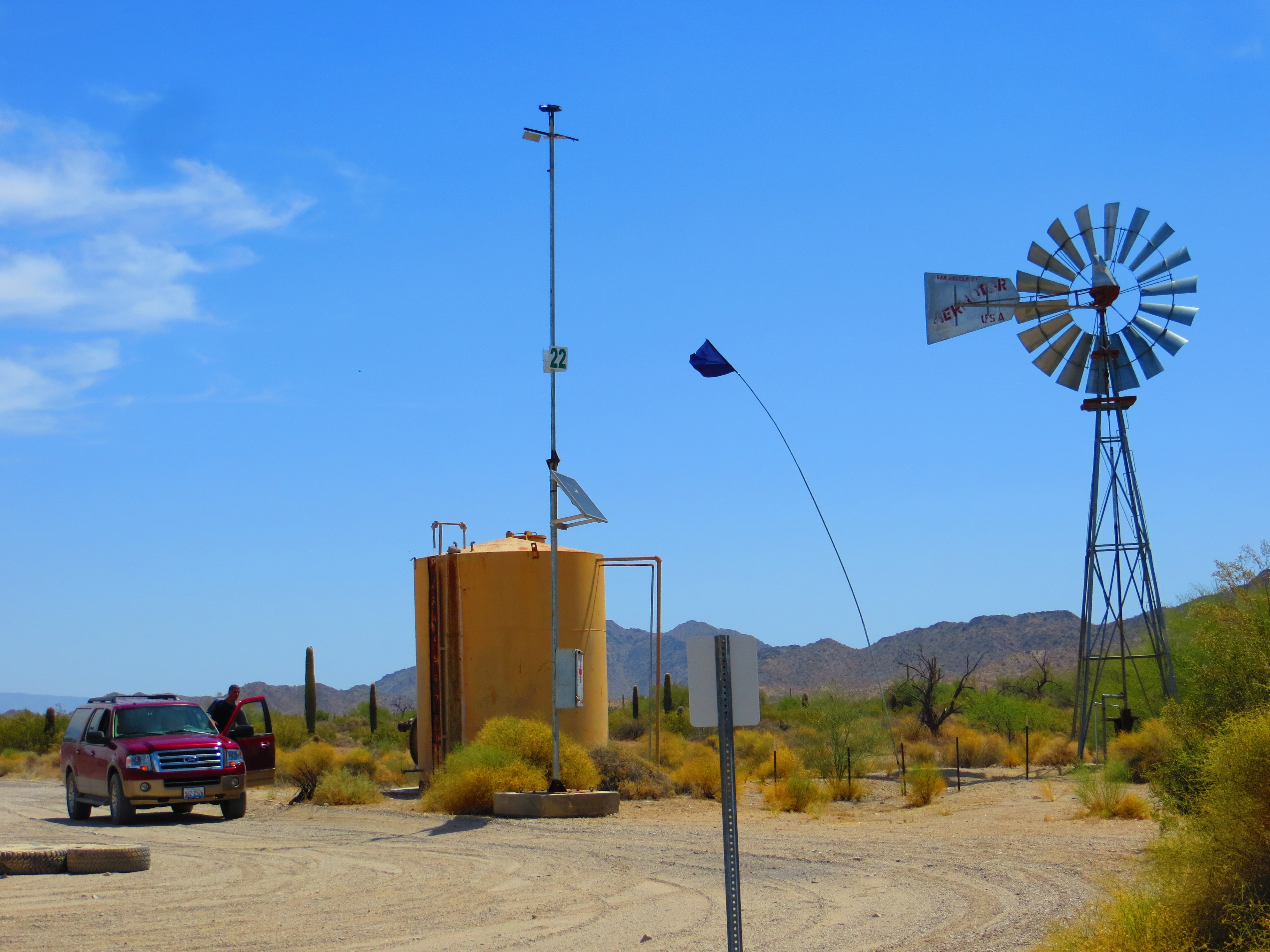 Papago Well, located on El Camino Del Diablo in Cabeza Prieta National Wildlife Refuge.